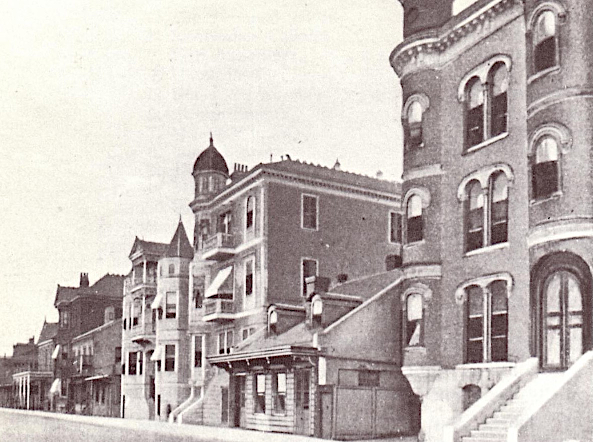 New Orleans: "Basin Street Up the Line". View is of the high-rent section of the "Storyville" Red light district. Block of visible buildings includes from left to right Tom Anderson's Saloon (with pillared sidewalk gallery), the brothels of Hilma Burt, Diana & Norma, Lisette Smith, Minnie White, Josie Arlington (with rounded cupola), Martha Clarke (smaller older building) and Lulu White's Mahogany Hall is closest building at right.